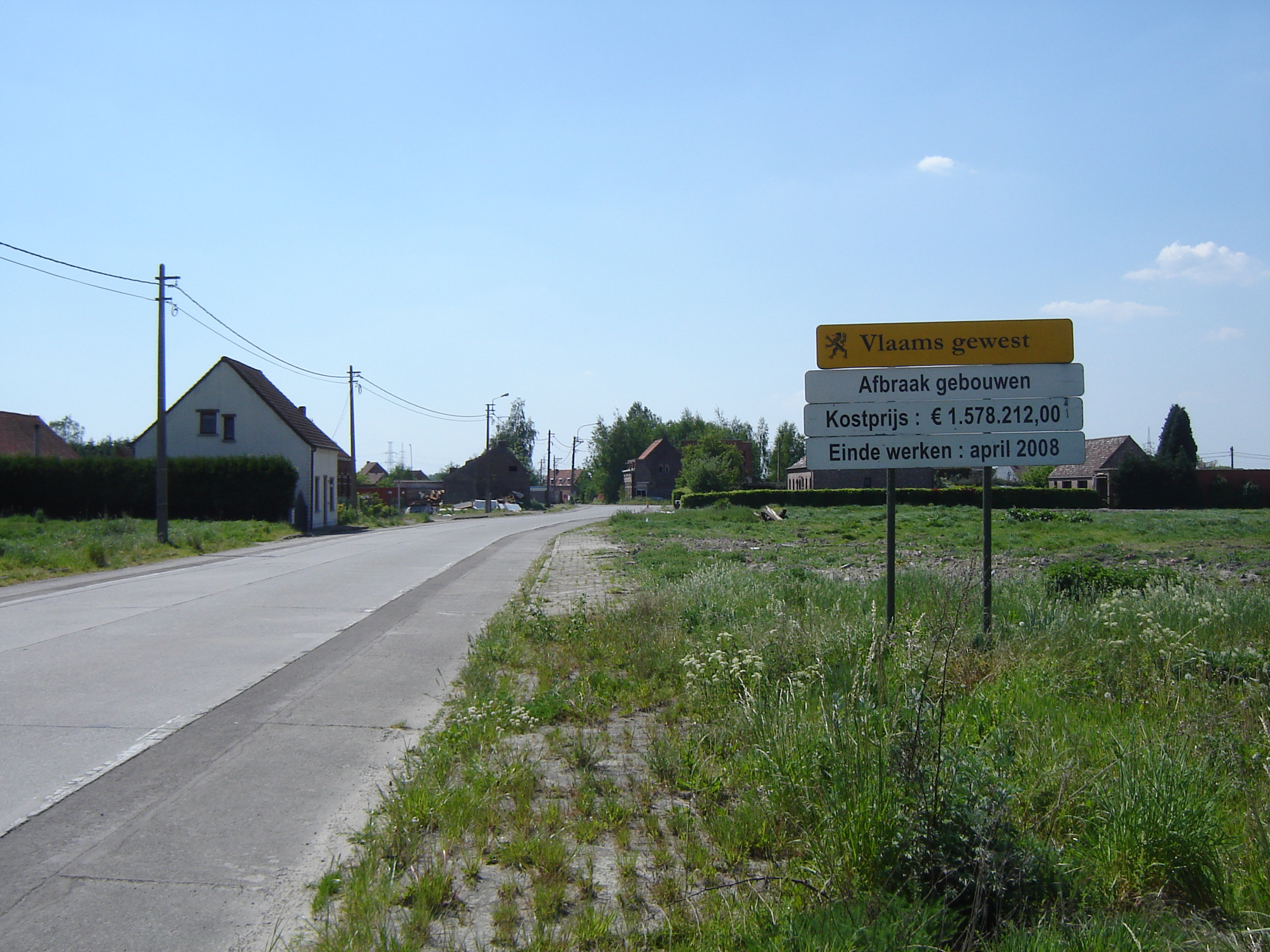 Zandeken hamlet in Evergem. Disappears in 2008 to make room for the expansion of the port of Gent (Kluizendok dock). Evergem, East Flanders, Belgium